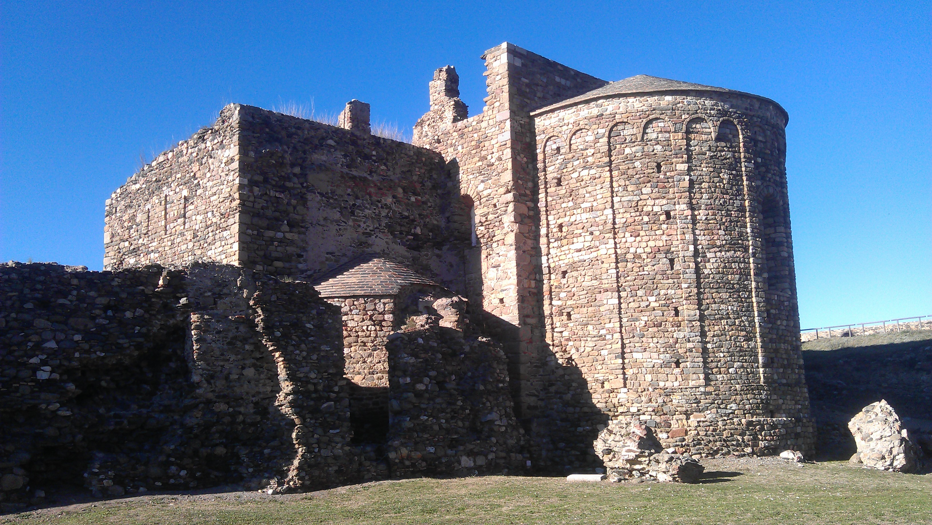 Romanic church ruin Santa Maria de Roses